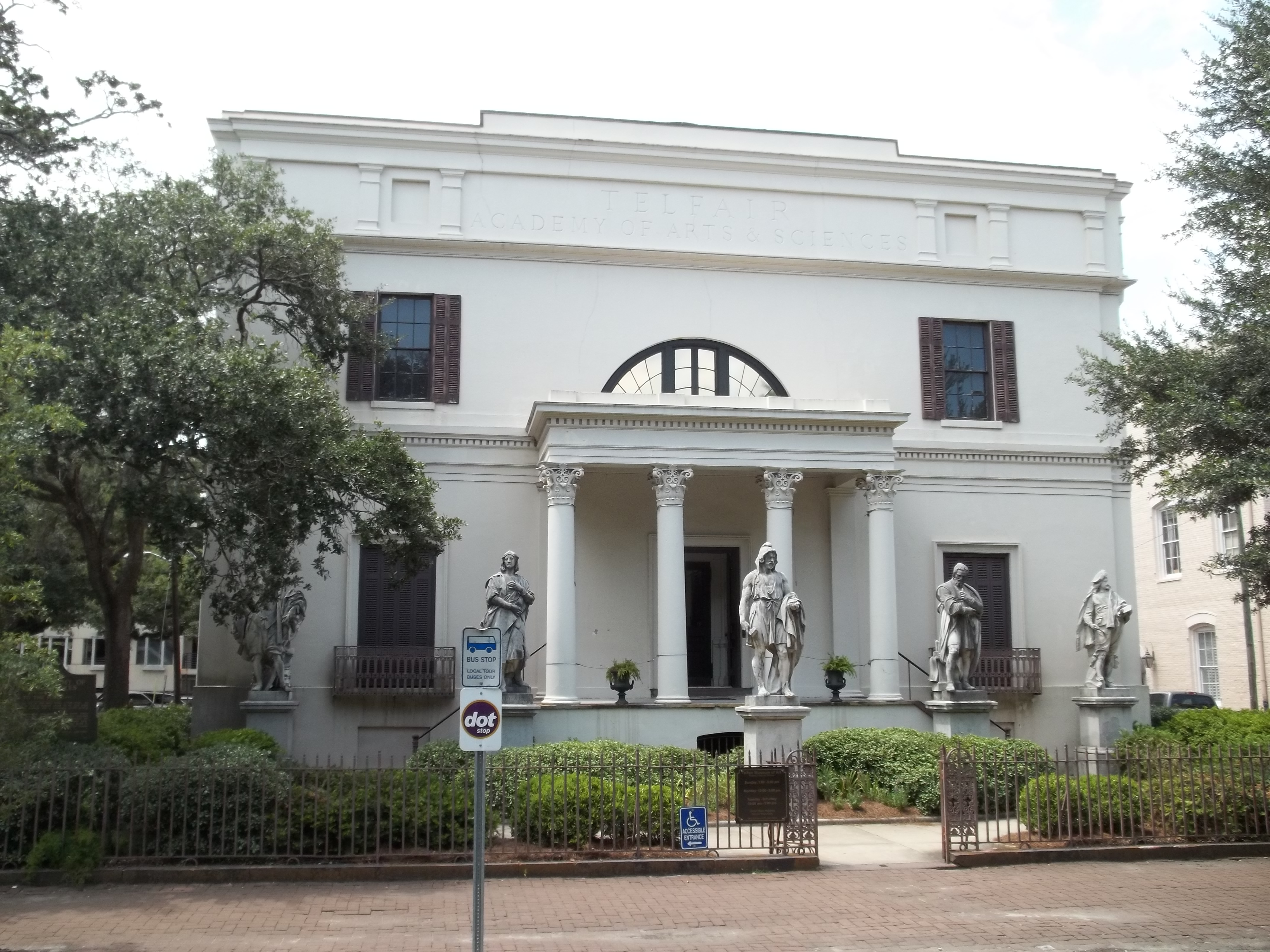 Savannah, Georgia: Telfair Academy of Arts and Sciences